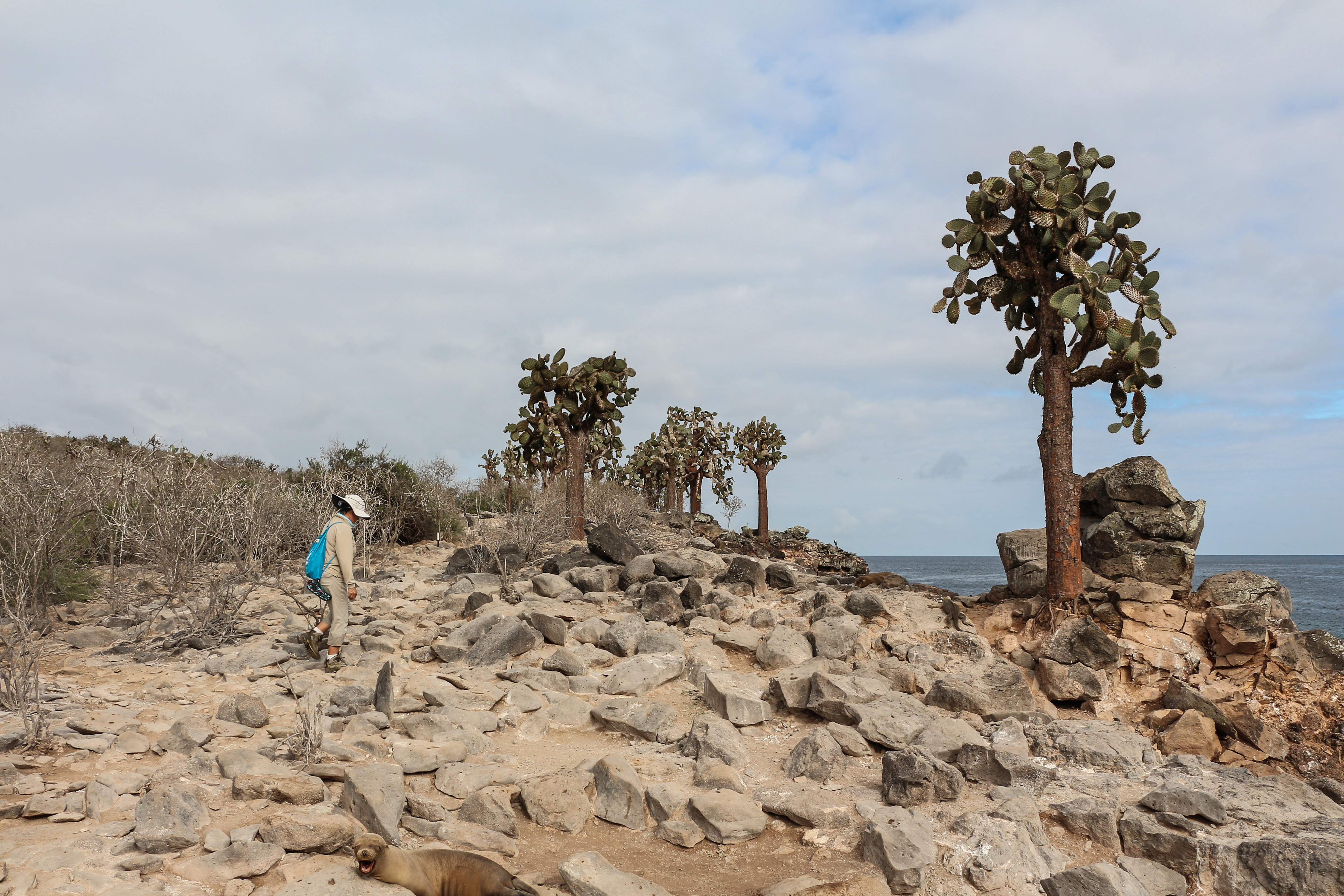 Landscape of Santa Fe Island, Galápagos National Park, Ecuador